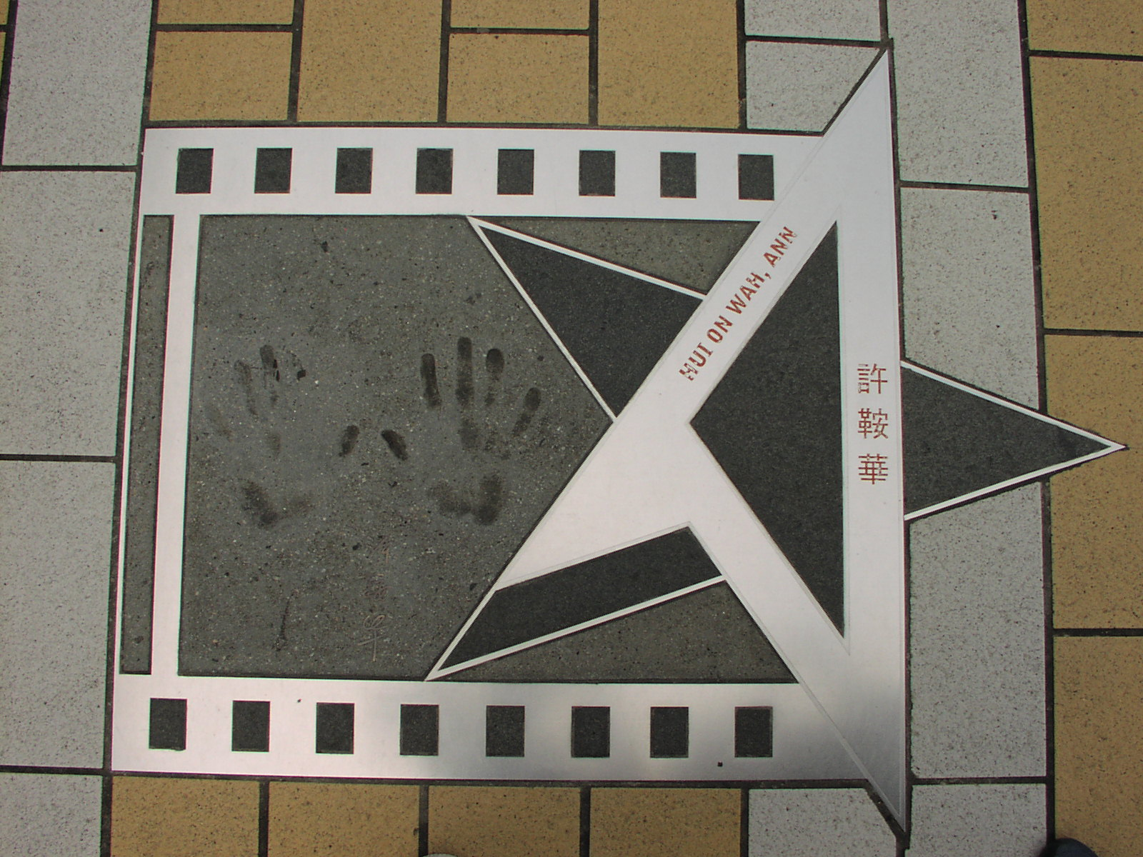 Avenue of Stars, Hong Kong